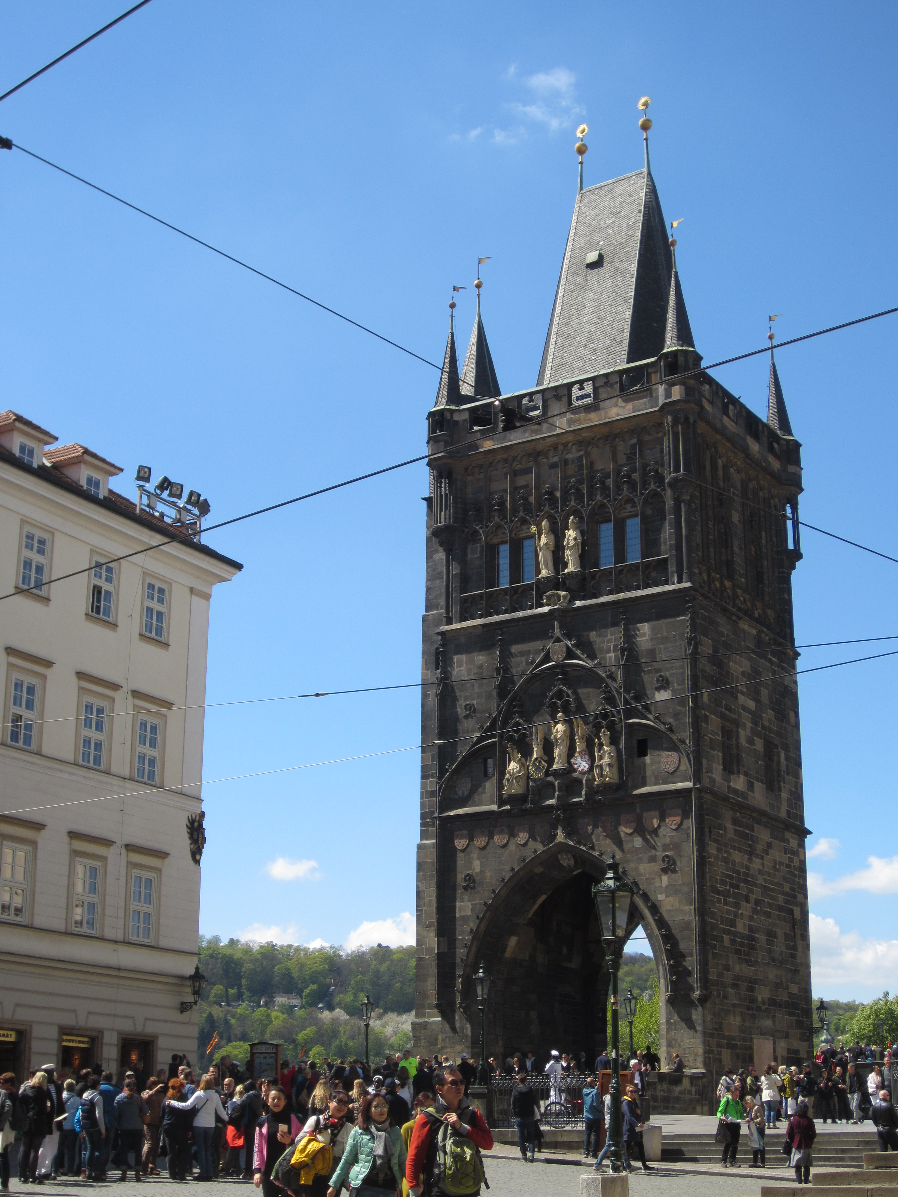 Prague, Czech Republic, April 2016